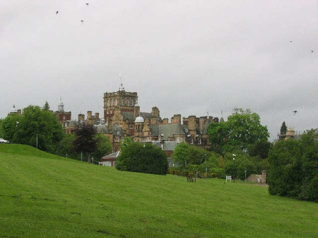 Craighouse Campus. Once a hospital, Craighouse is now part of Napier University. There is a big hatch of hawthorn flies (Bibio). No water here, but these flies tend to start up a feeding frenzy in trout.